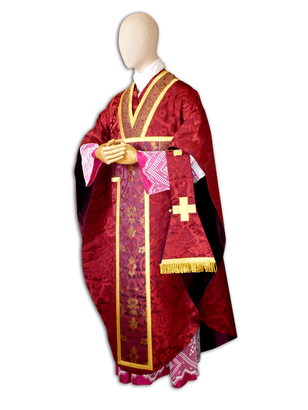 Chasuble in Renaissance style called borromaea because the model has been used by Saint Charles Borromaeus. With maniple.